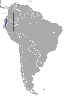 Gray-bellied Shrew Opossum (Caenolestes caniventer) range